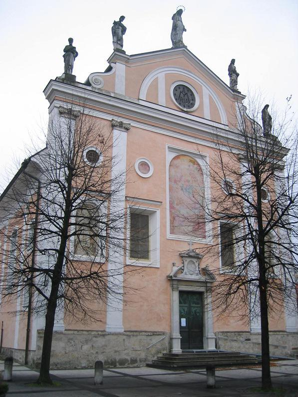 Immaculate Conception of the Virgin Mary Church in Kamnik, Slovenia.